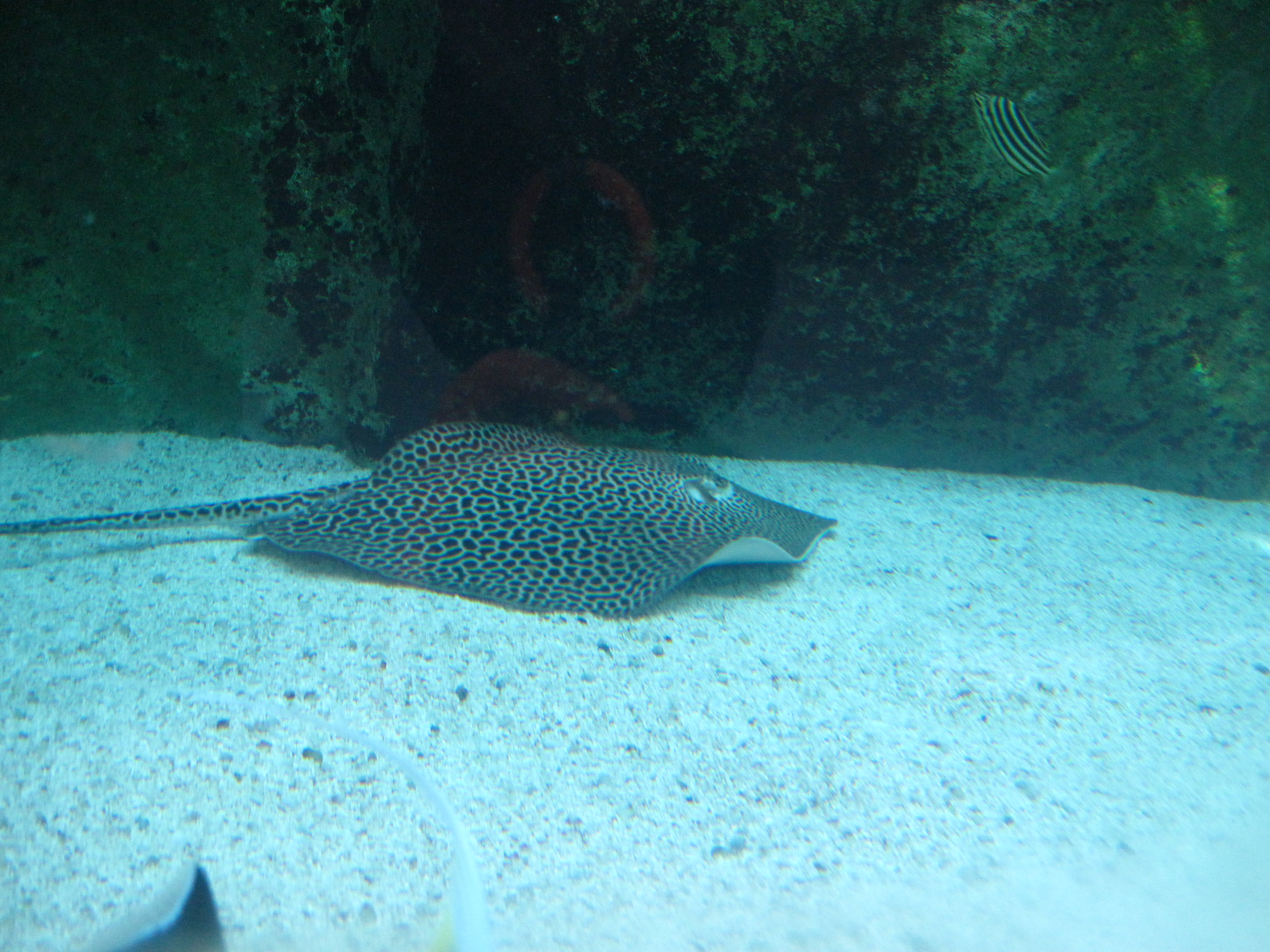 Honeycomb stingray (Himantura uarnak) at the Sydney Aquarium